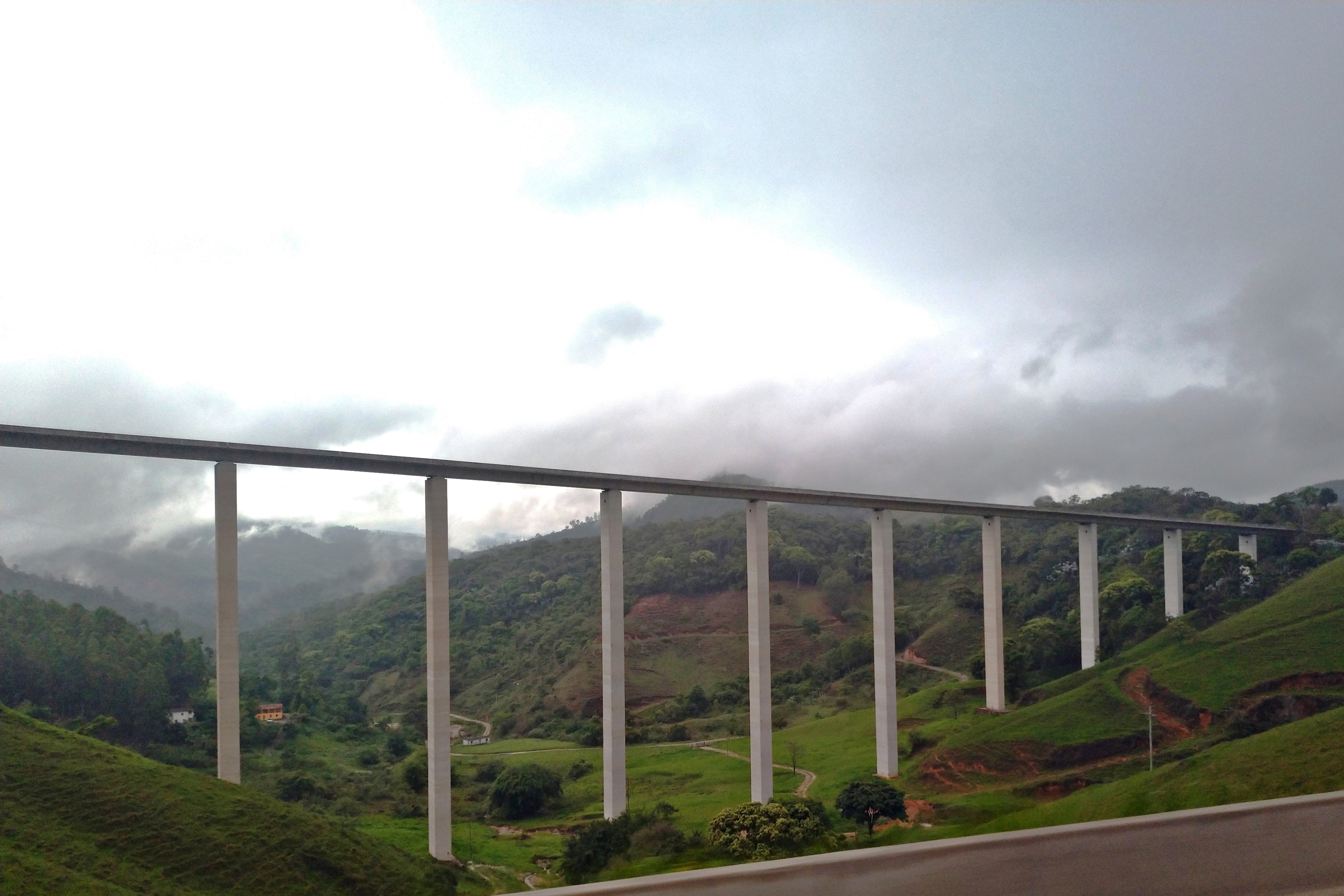 Partial view of the Ronaldo de Souza viaduct (Prainha viaduct), in Antônio Dias, Minas Gerais, Brazil.